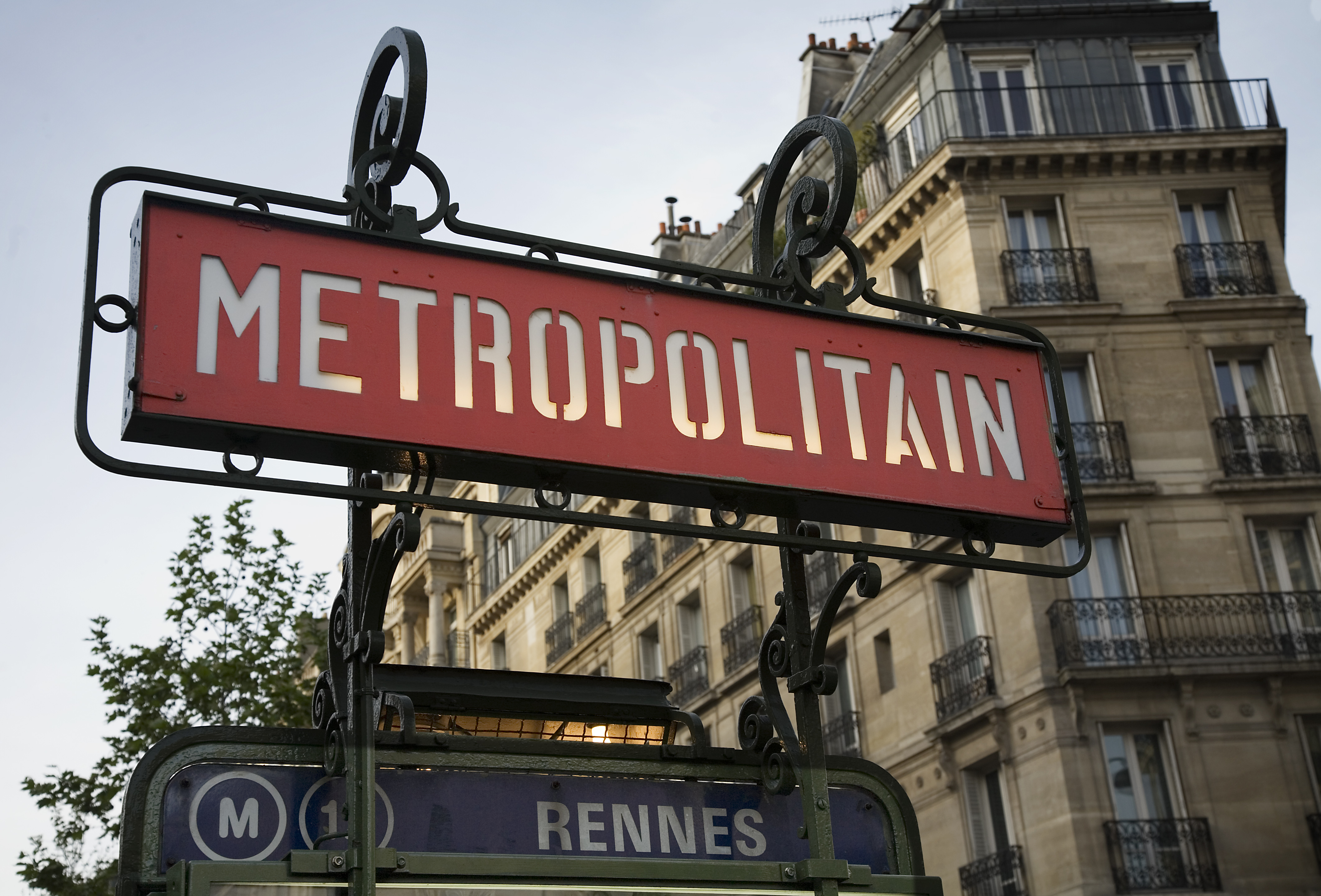 Le Metro, Access to the RennesMetropolitain station, Paris